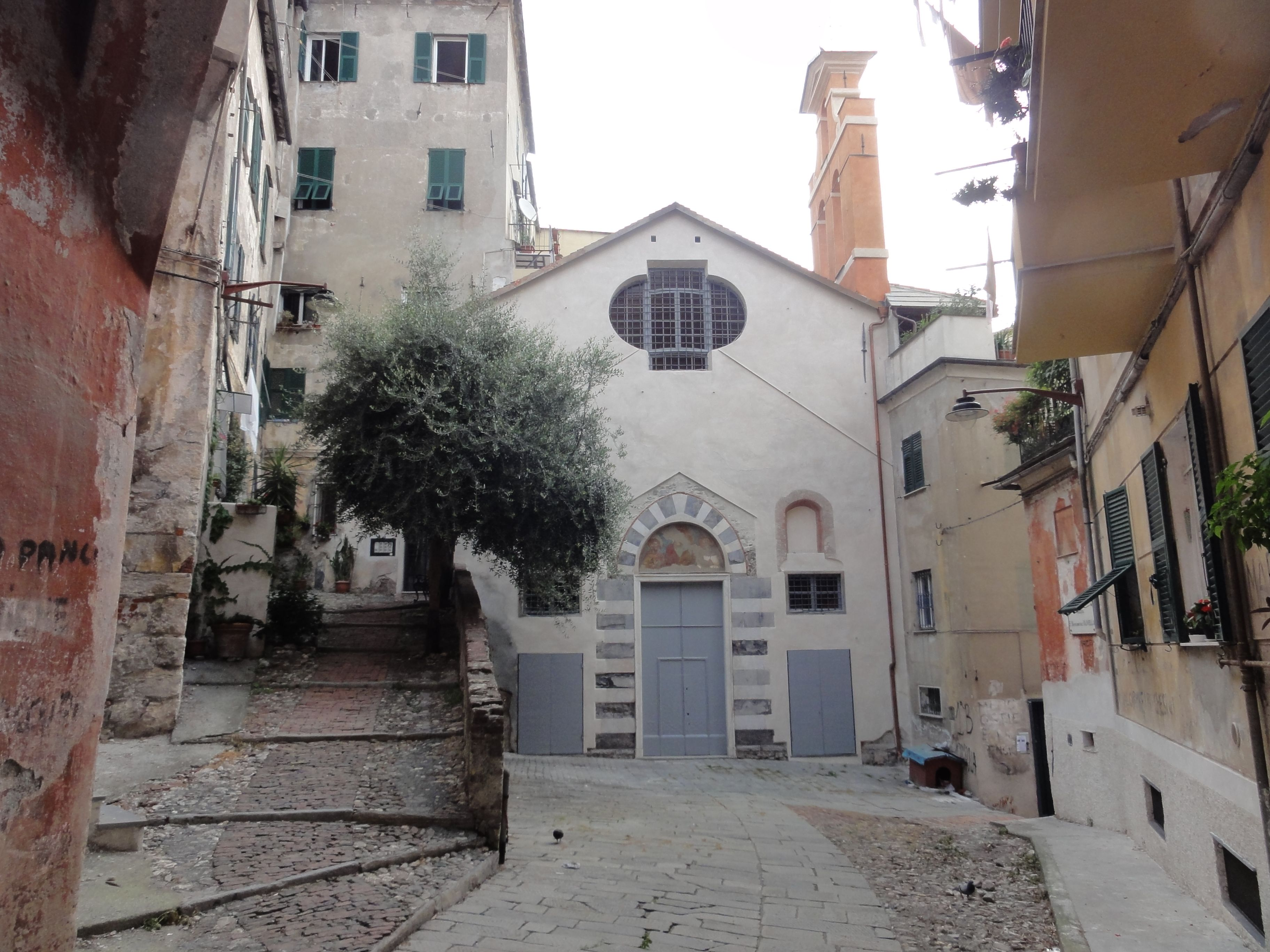 Square and Church of Saint Bartholomew of "Olivella", Genoa